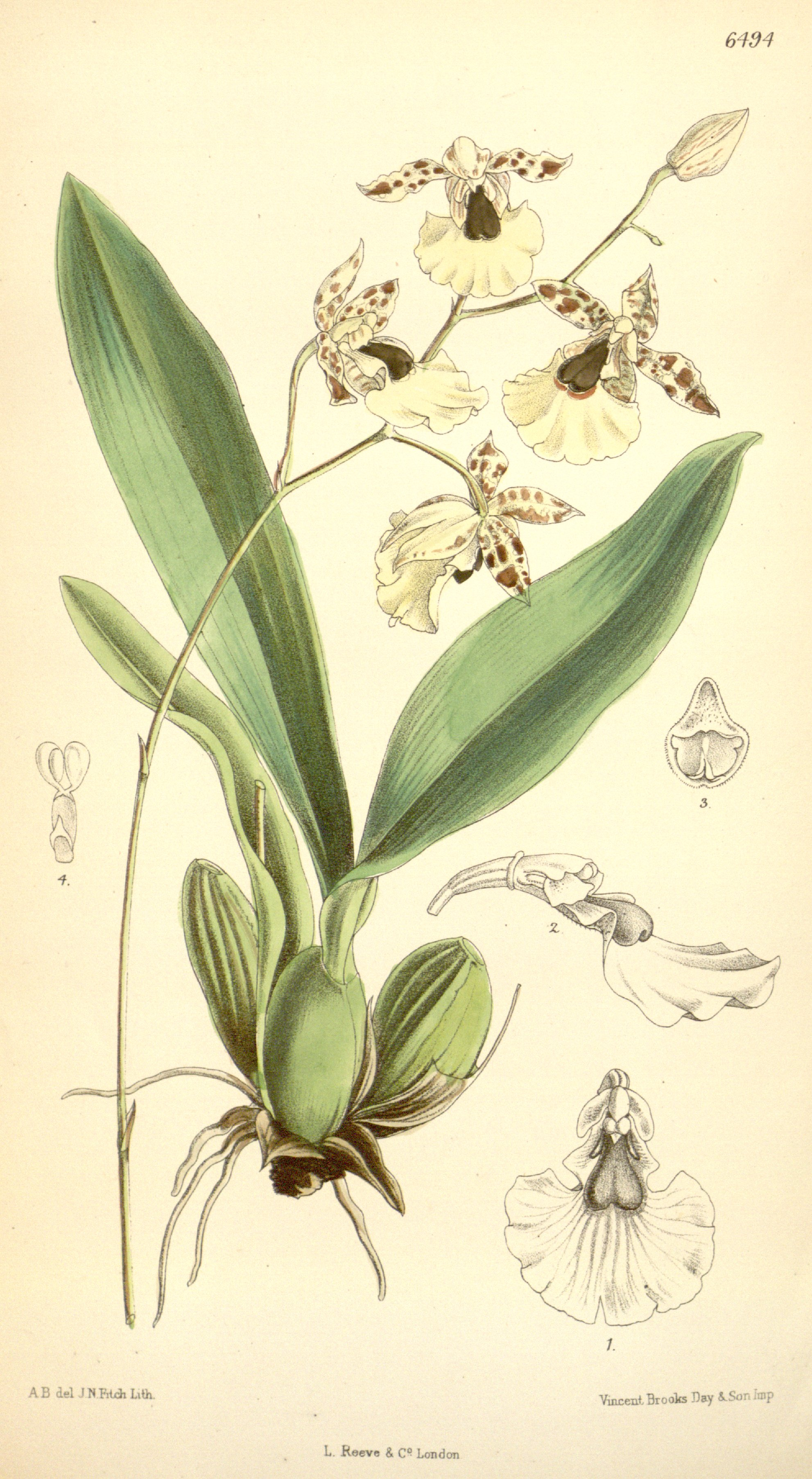 Illustration of Oncidium dasytyle, spelled Oncidium dasystyle